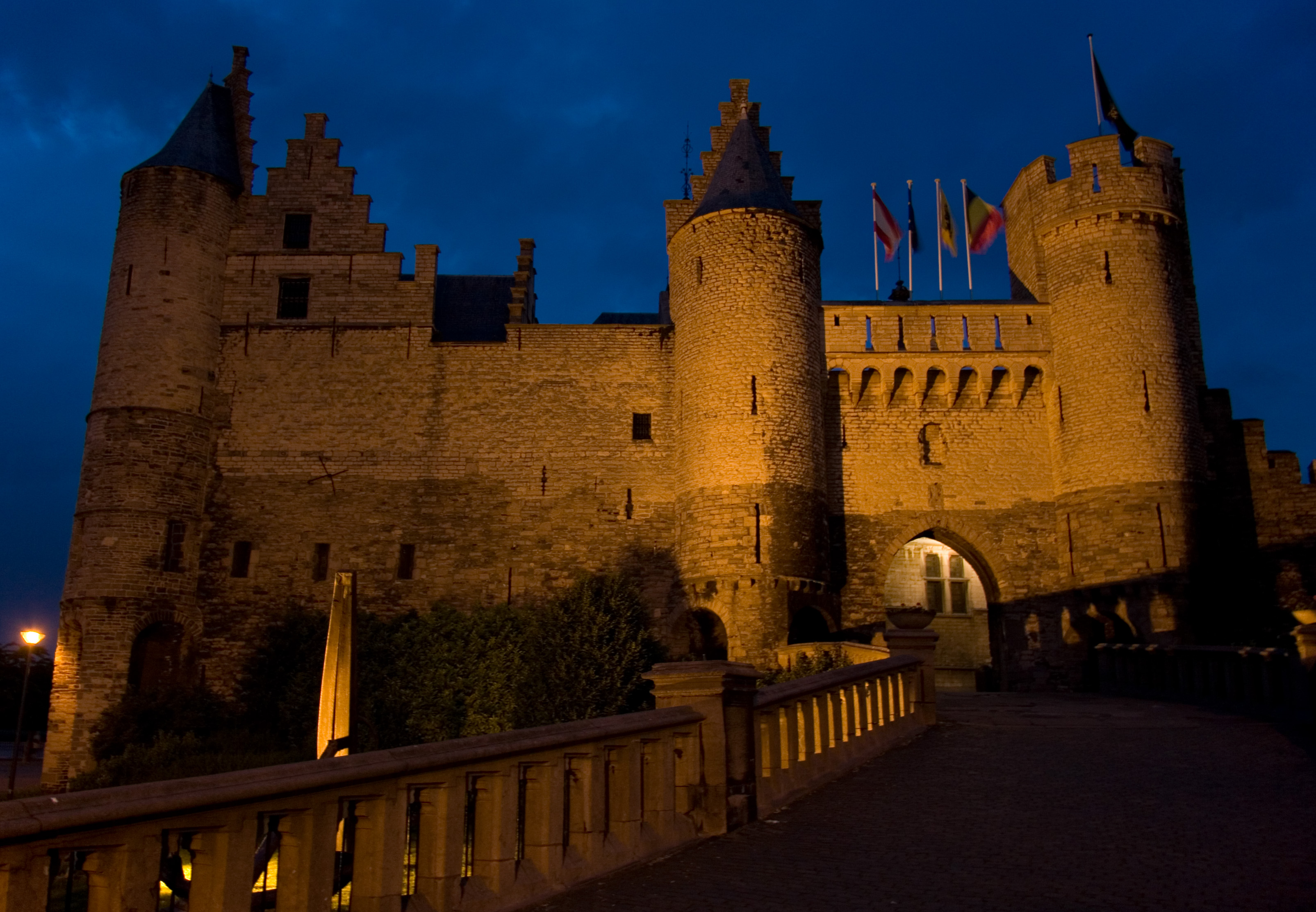 Het Steen in Antwerp, Belgium.